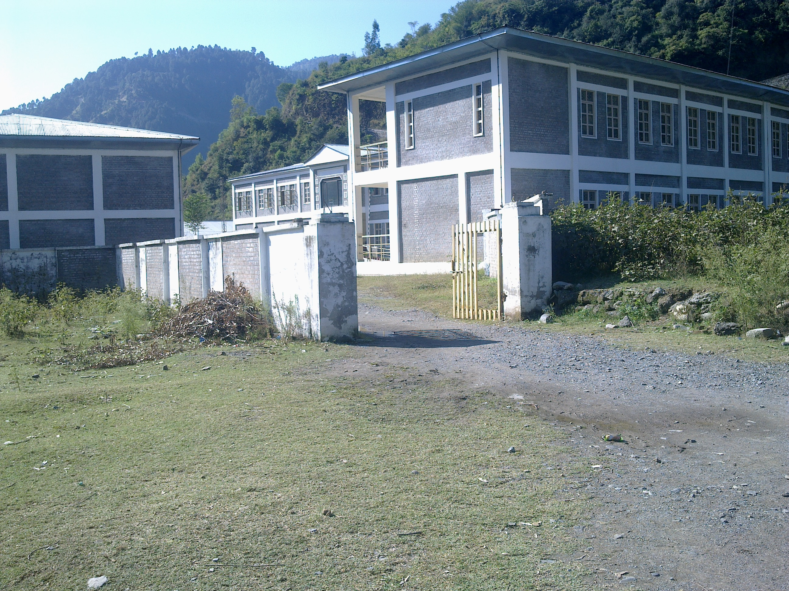 Govt. Higher Secondary School Boi is the only Higher Secondary school in union council Boi. Approximately more than 500 students are currently getting education from this institute. it is situated at Mashrang, Boi, Abbottabad.